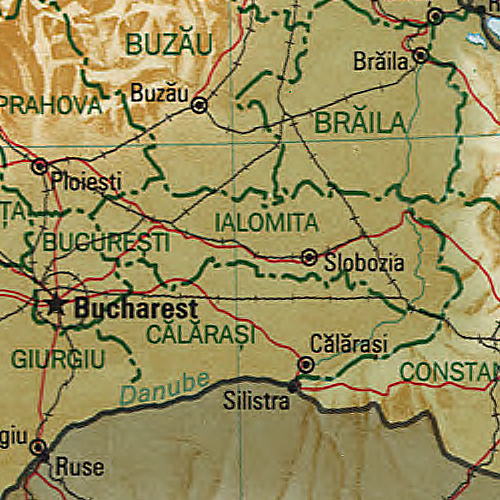 Map of Ialomița County, Romania.